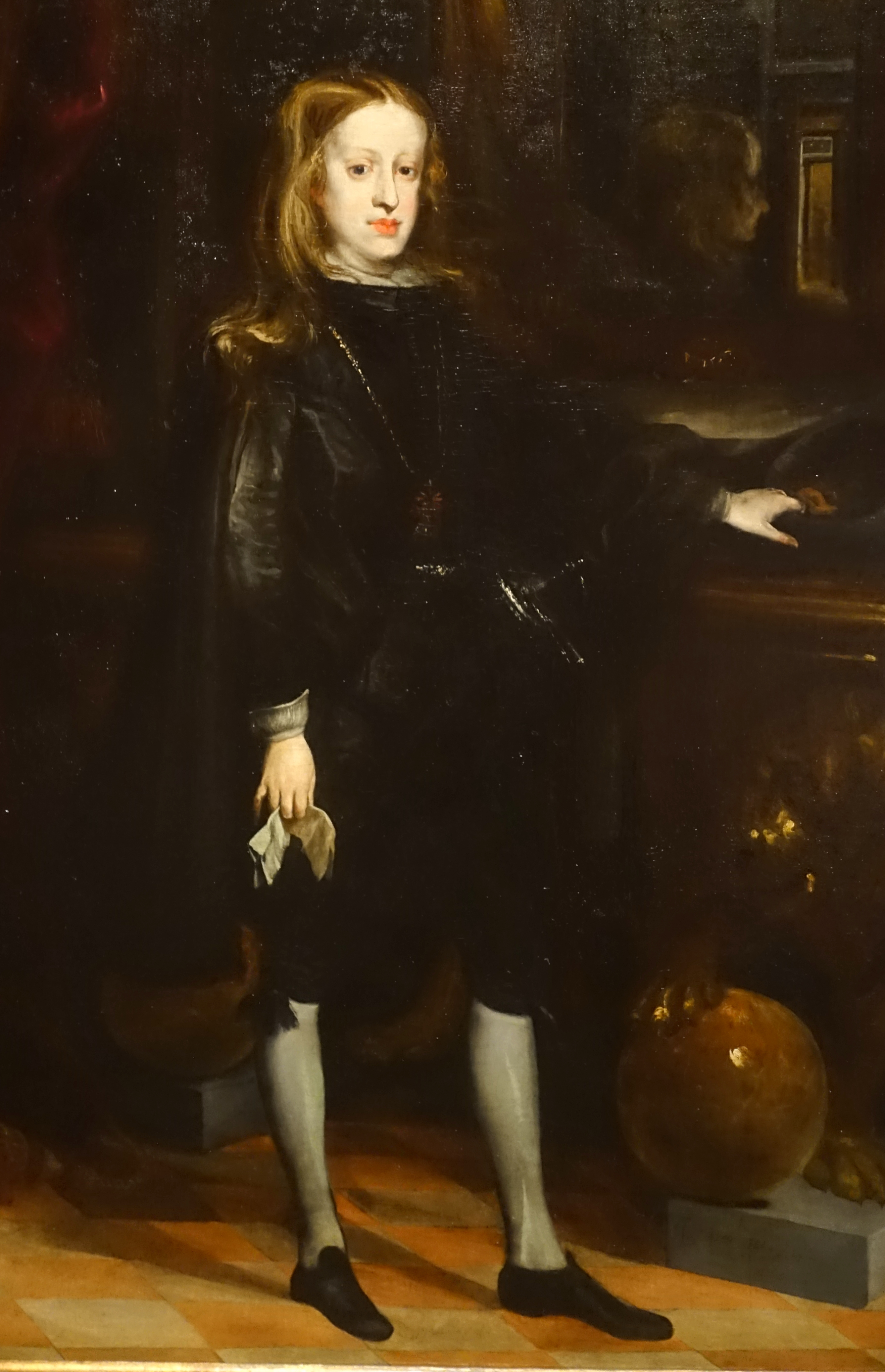 Exhibit in the Meadows Museum - Southern Methodist University, Dallas, Texas, USA.